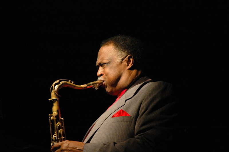 Houston Person gracing the stage at the Cellar